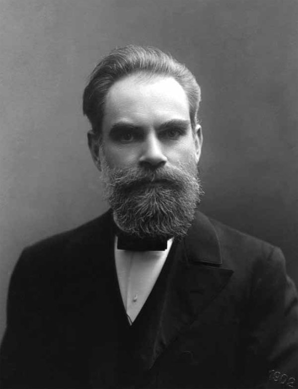 Aleksandr Lyapunov (1857-1918), Russian mathematician, mechanician and physicist